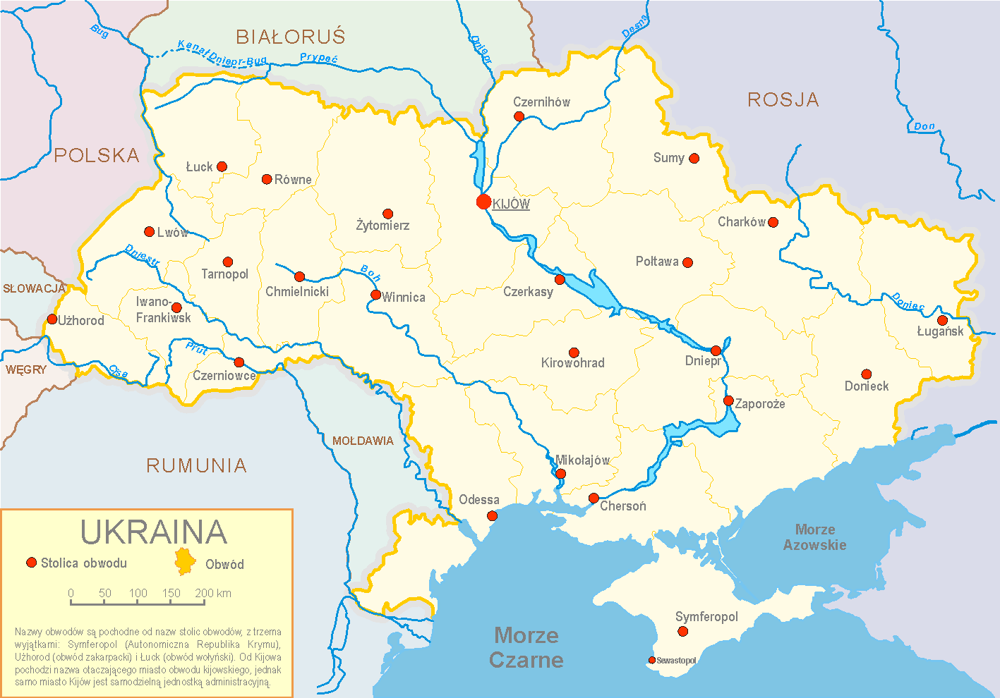 Map of ukraine - polish by Sven Teschke